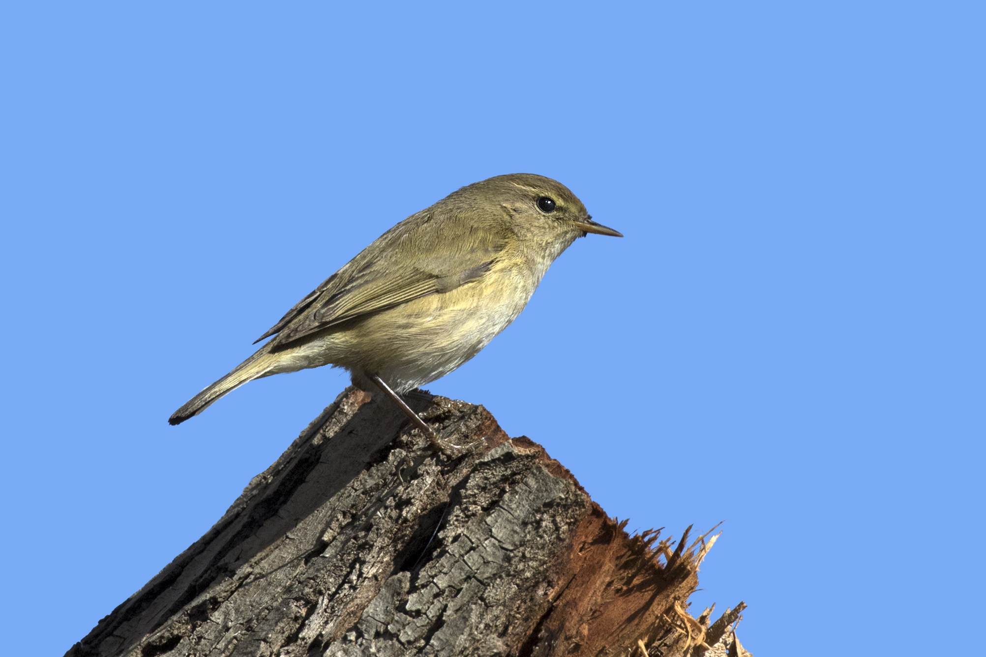 Willow Warbler (Phylloscopus trochilus). Eskibaraj Dam Lake, Adana - Turkey.